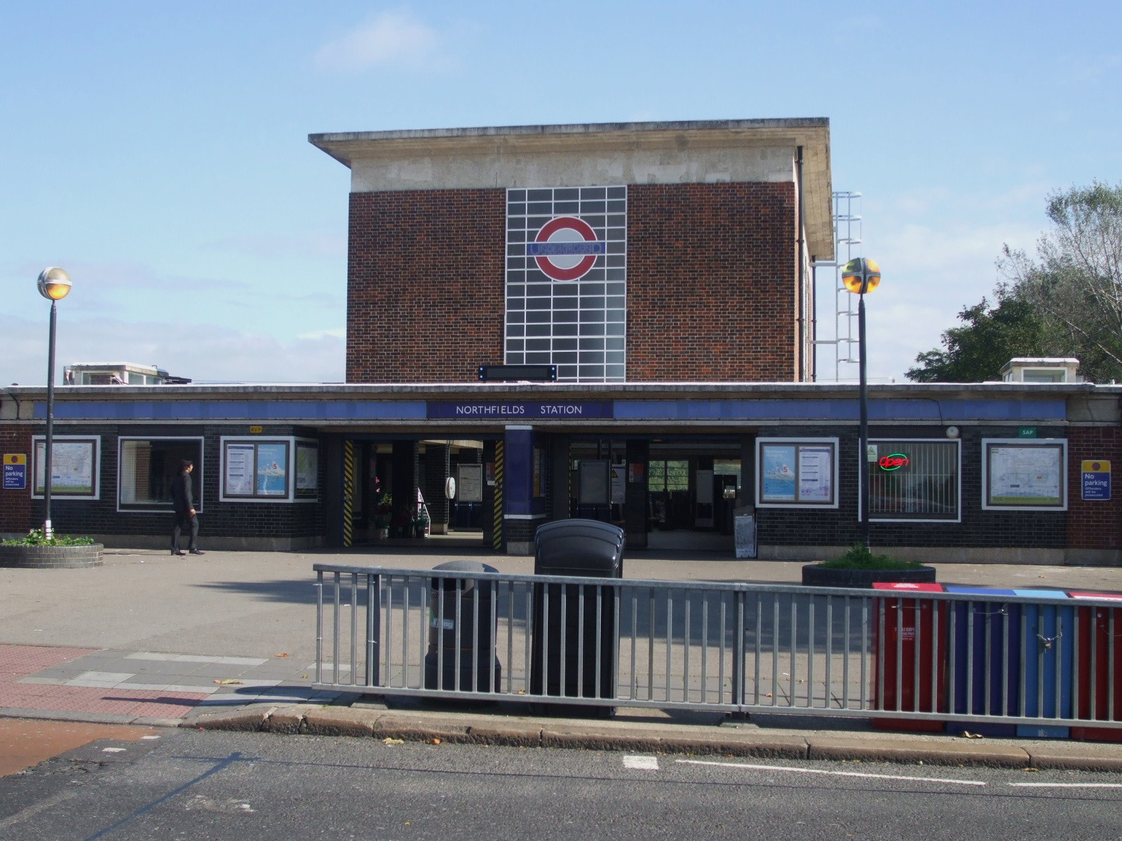 Northfields tube station